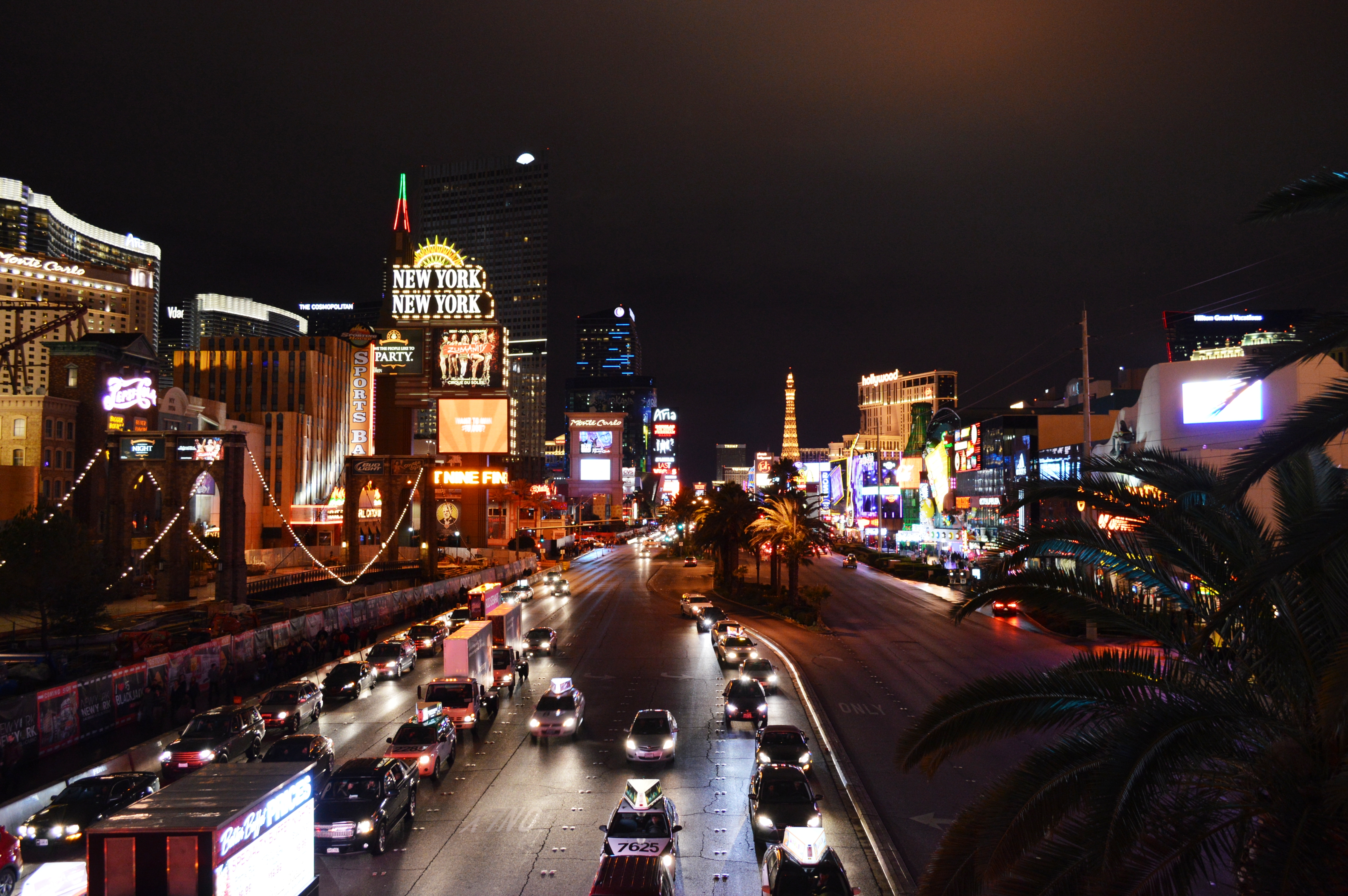 Northward view of the Las Vegas Strip from the overhead pedestrian bridge between MGM Grand Las Vegas and New York-New York Hotel and Casino. It's the same spot where I took this photo in 2007. Aria, Mandarin Oriental the Cosmopolitan and The Crystals were not in the 2007 photo because the CityCenter complex was still under construction at the time. On the other hand, Bellagio's sign is now hidden behind Aria's gigantic vertical monitor from this angle. The orange light in the sky is a cloud reflecting city lights; it had been raining in the Las Vegas area (and snowing in the mountains). New York-New York's bridge area is blocked off for construction. If you zoom in, you can see a banner in front of the bridges, indicating that there will be a new Hershey's Chocolate World at this location, which is across from M&M's World. It's supposed to look like this when it debuts in 2014.